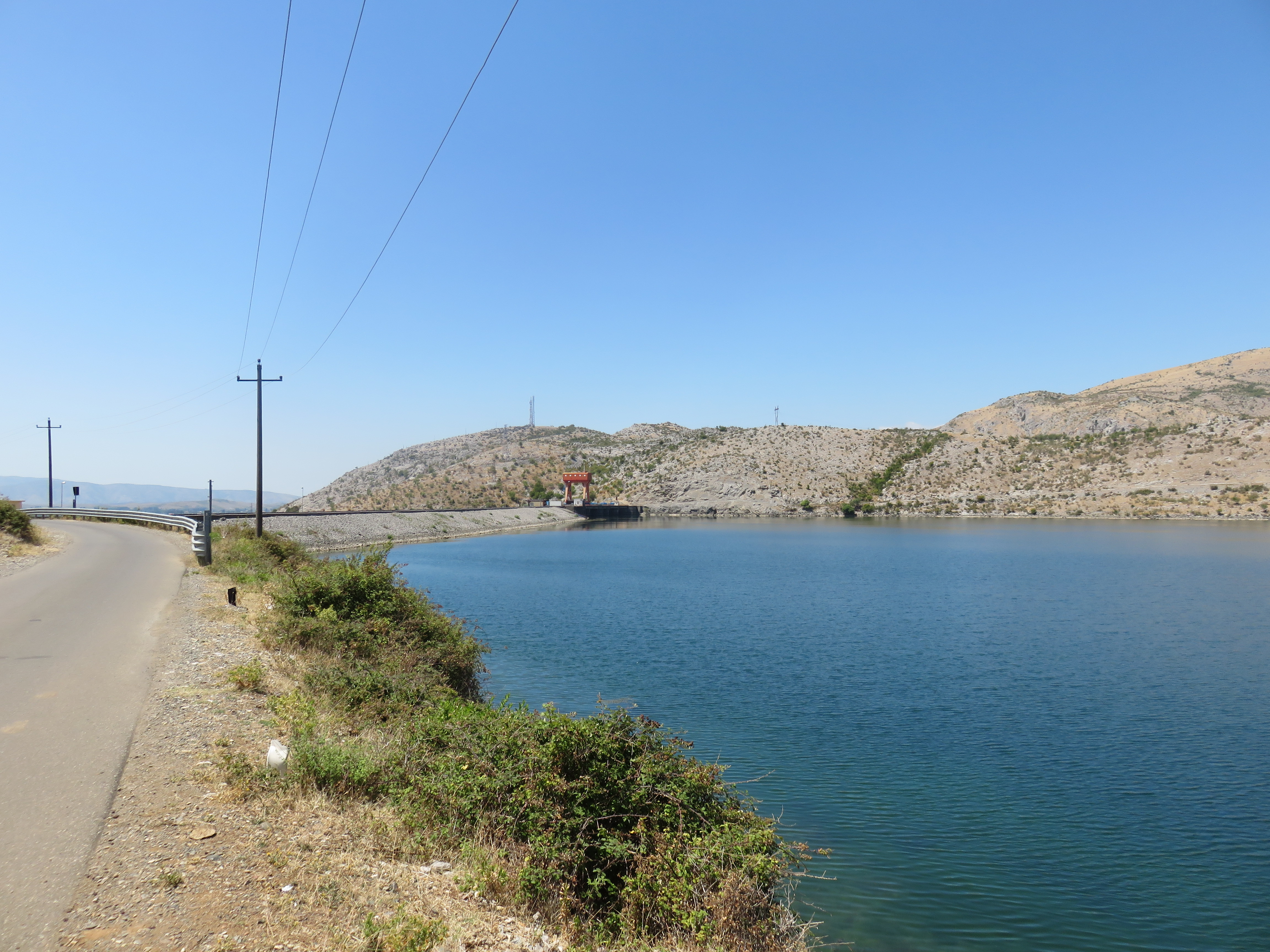 Vau-i-Dejës Hydroelectric Power Station.